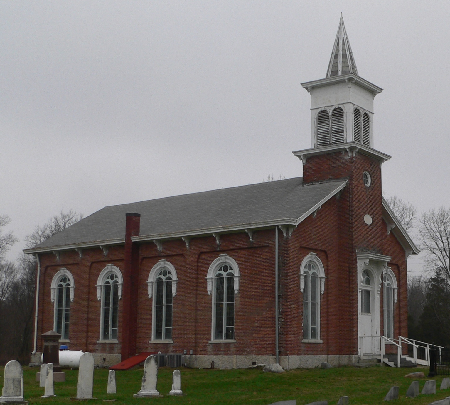 Holy Ground, a.k.a. Doddridge Chapel, located at 9471 Chapel Road in rural Wayne County, Indiana, southwest of Centerville, Indiana. View is from the southeast.